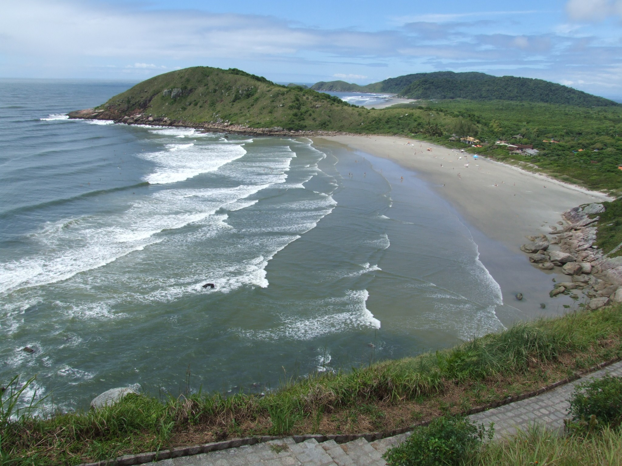 Partial sight of the Honey Island.